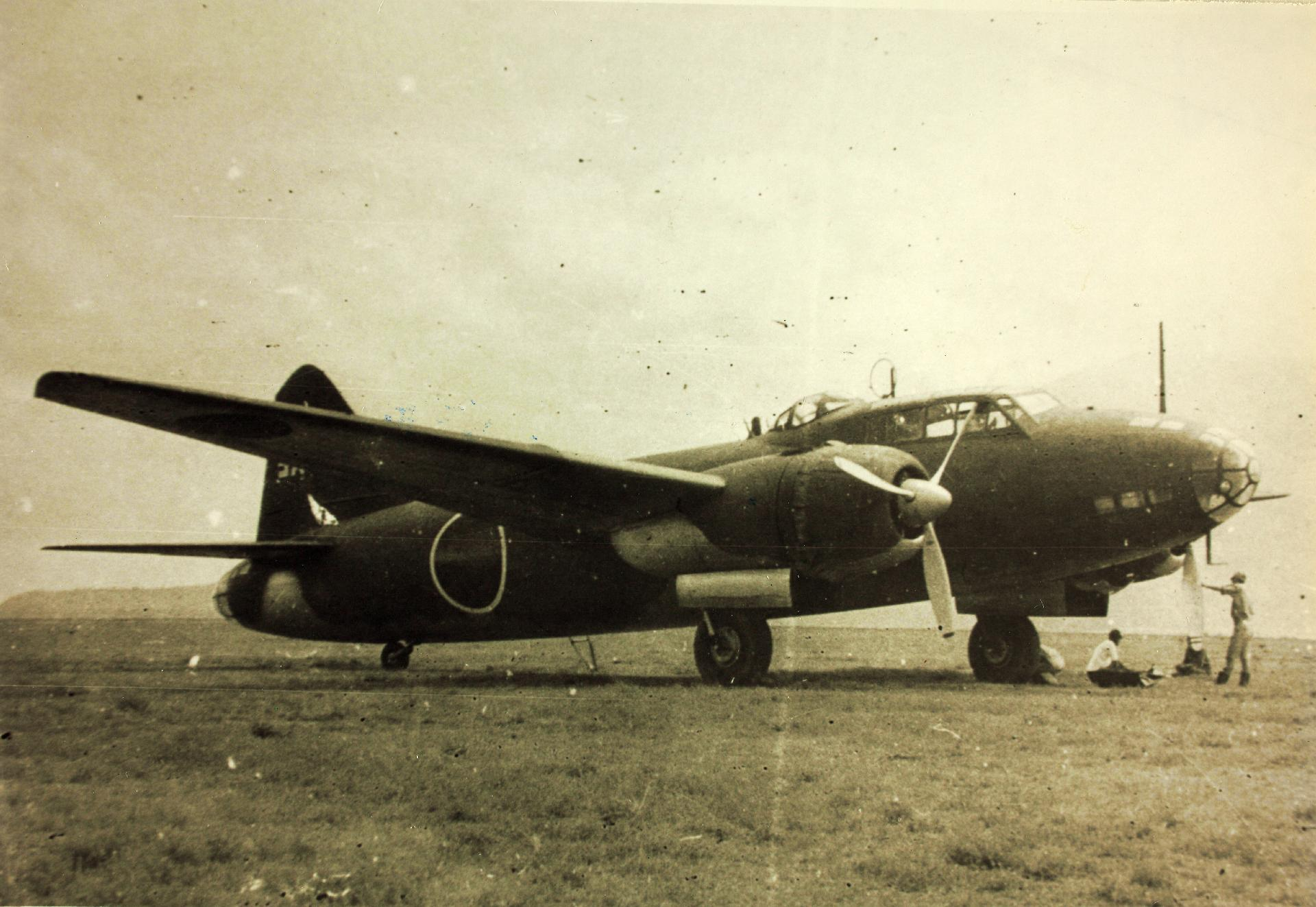 Catalog #: 01_00085810 Title: Mitsubishi, G4M-2, Betty Corporation Name: Mitsubishi Official Nickname: Betty Additional Information: Japan Designation: G4M-2 Tags: Mitsubishi, G4M-2, Betty Repository: San Diego Air and Space Museum Archive